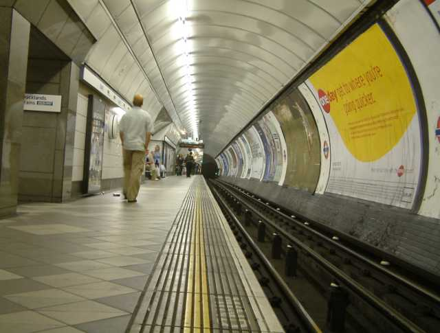 London Underground, station Bank (Northern Line)